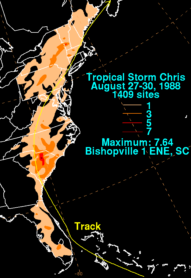 Rainfall produced by Tropical Storm Chris during August 1988.